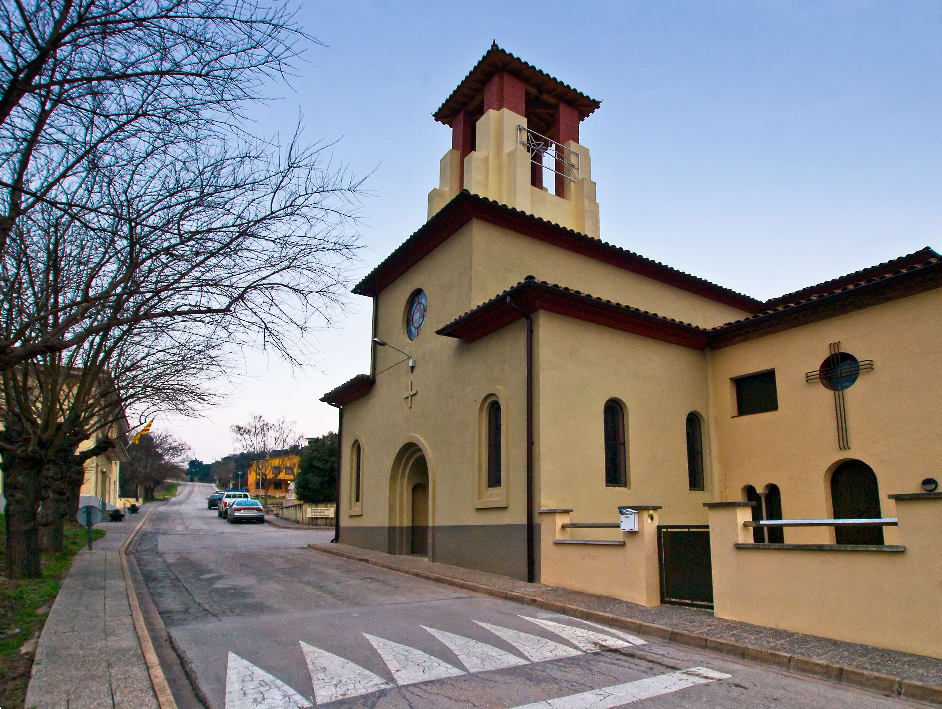 Sant Julia de Ramis church (Catalonia, Spain)